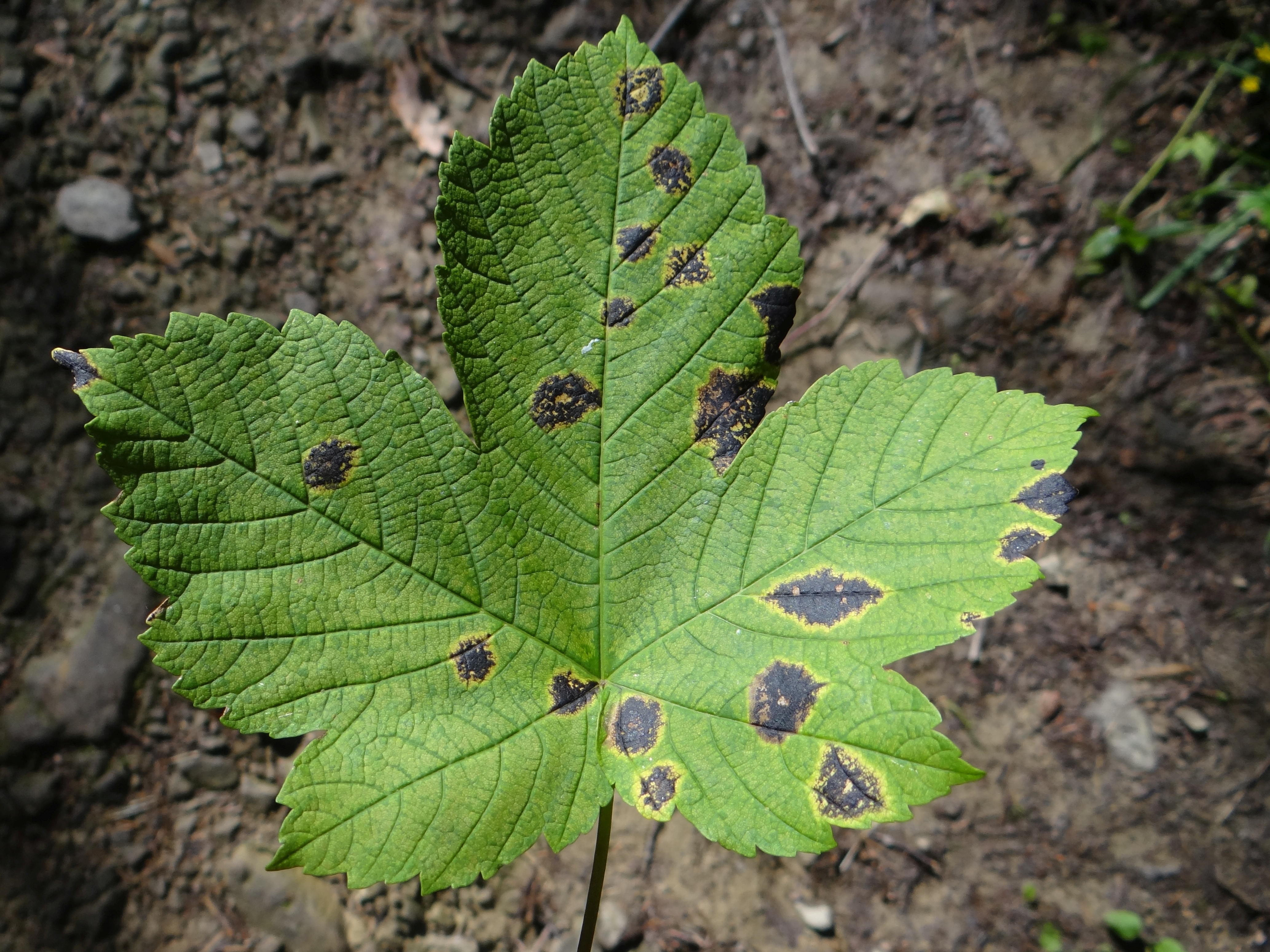 Rhytisma acerinum on Acer sp, (location: Poland, Chyszówki)